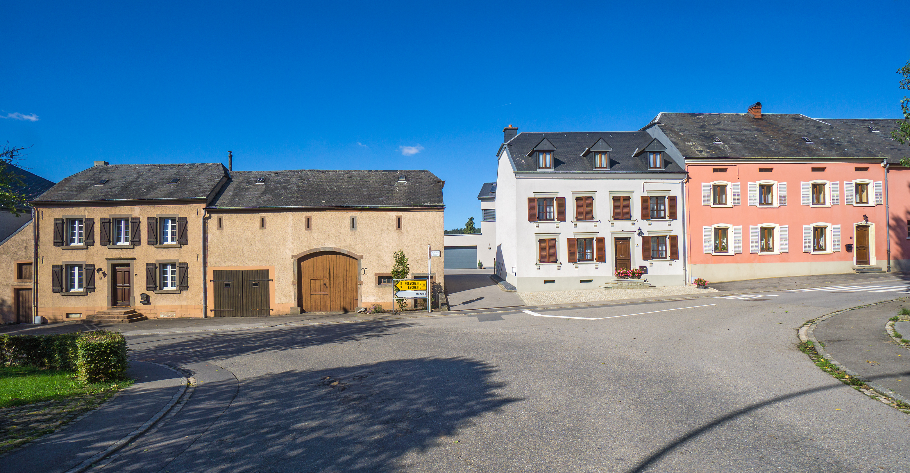 Crossing rue de Folschette and rue de la Grotte in Pratz